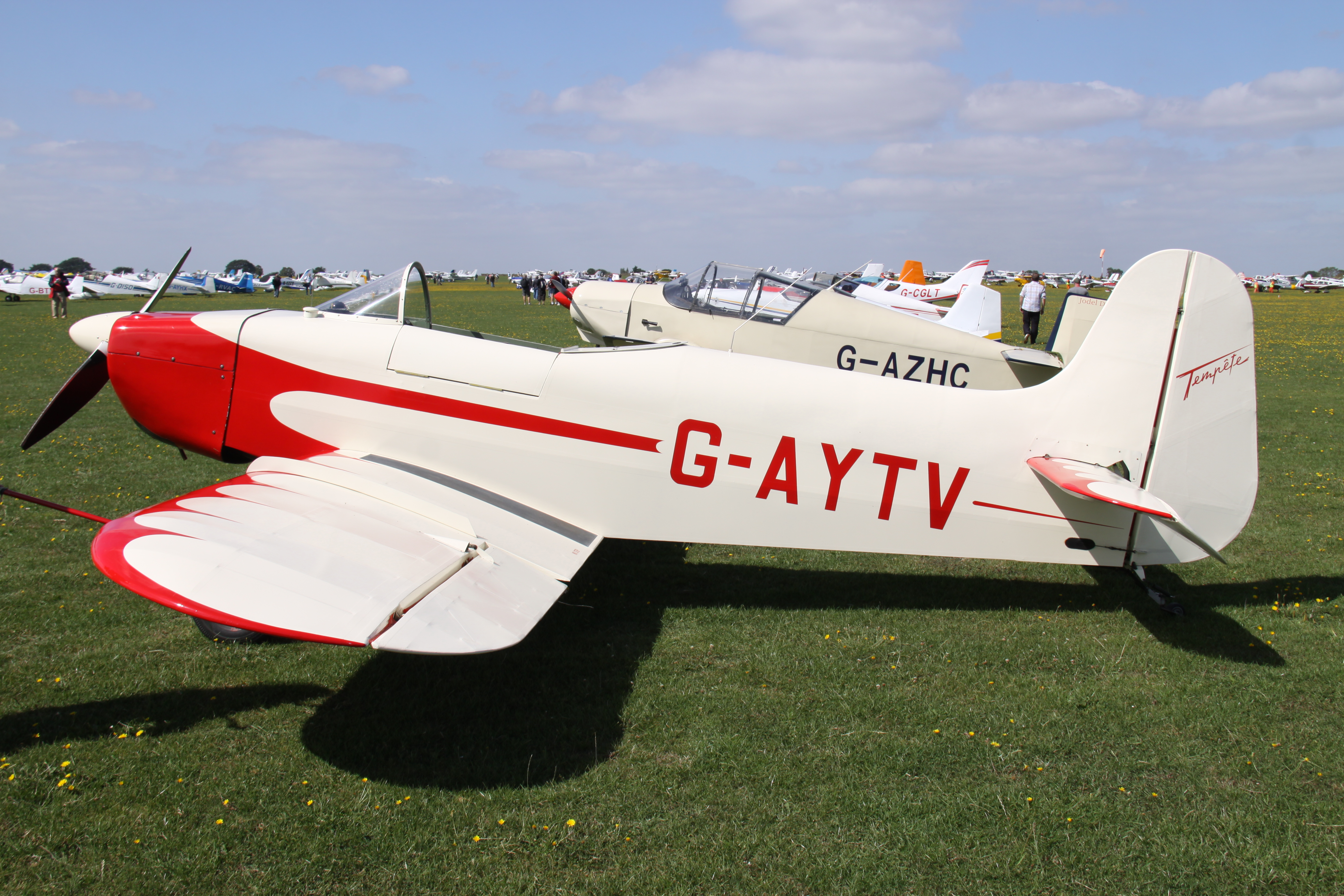 At Sywell Airfield